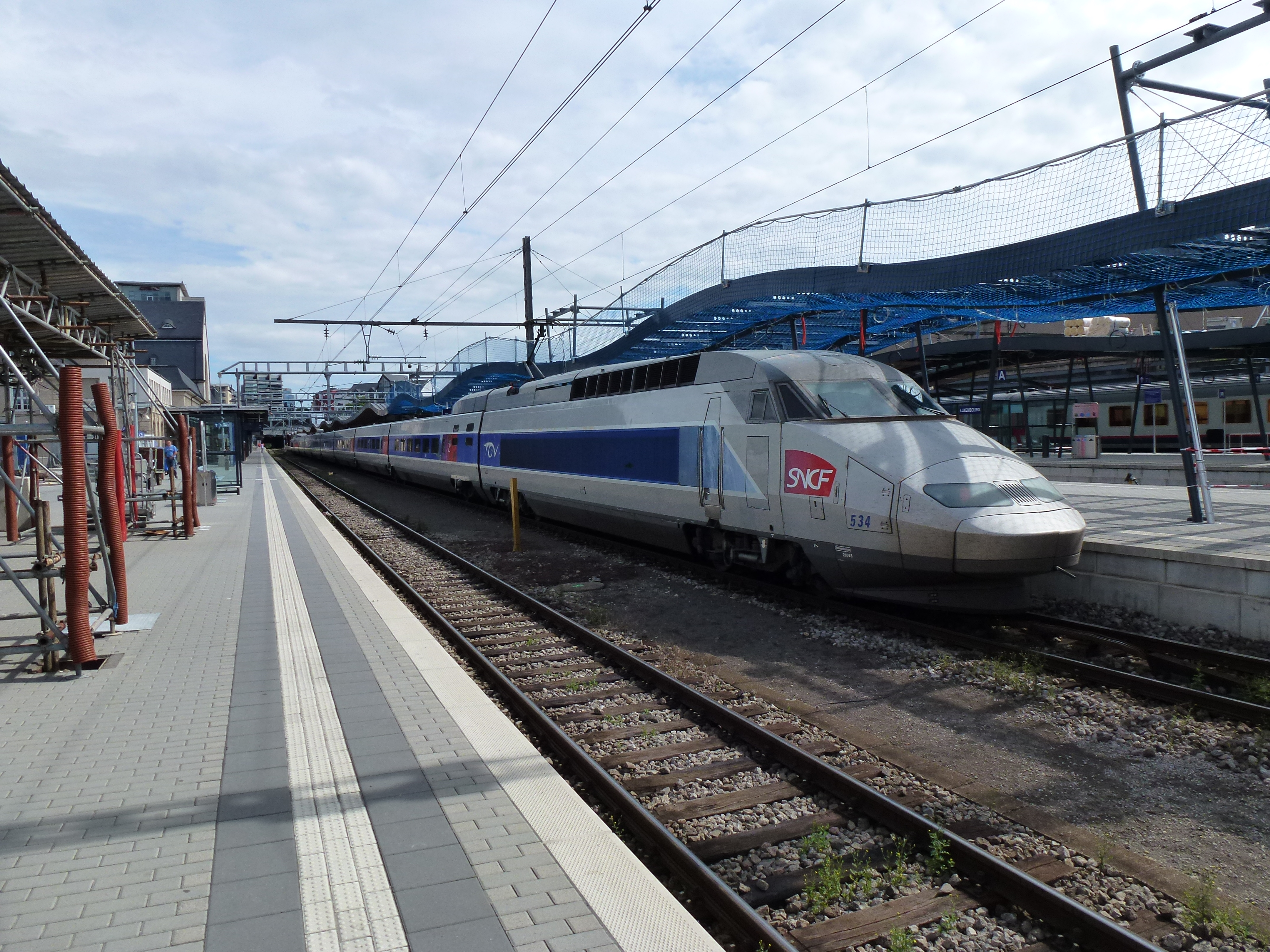 An SNCF TGV (“train à grande vitesse”, or “high-speed train”) stands at a platform at Luxembourg Station in July 2011.